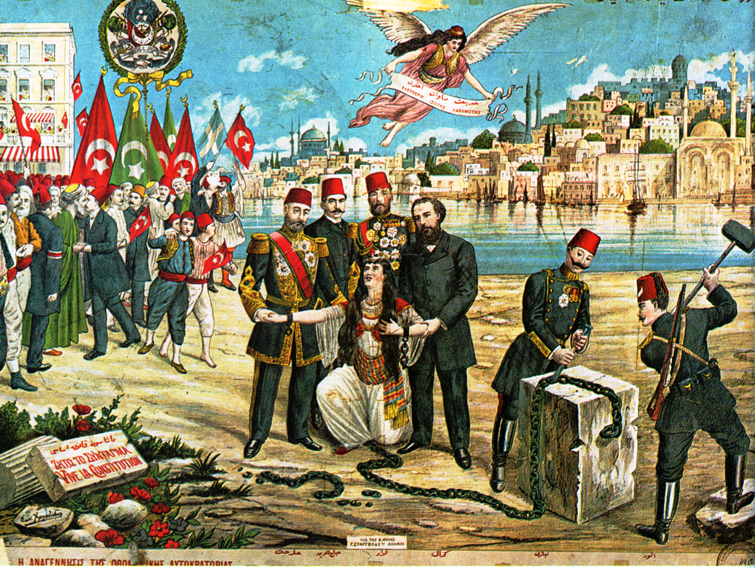 Greek lithograph celebrating the Young Turk revolt in 1908 and the re-introduction of a constitutional regime in the Ottoman Empire. The angel holds a calico bearing the words "freedom, equality, brotherhood".